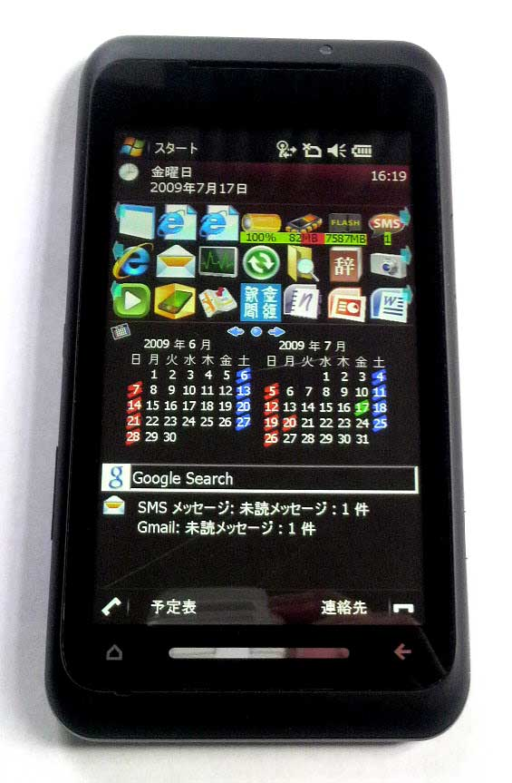 T-01A